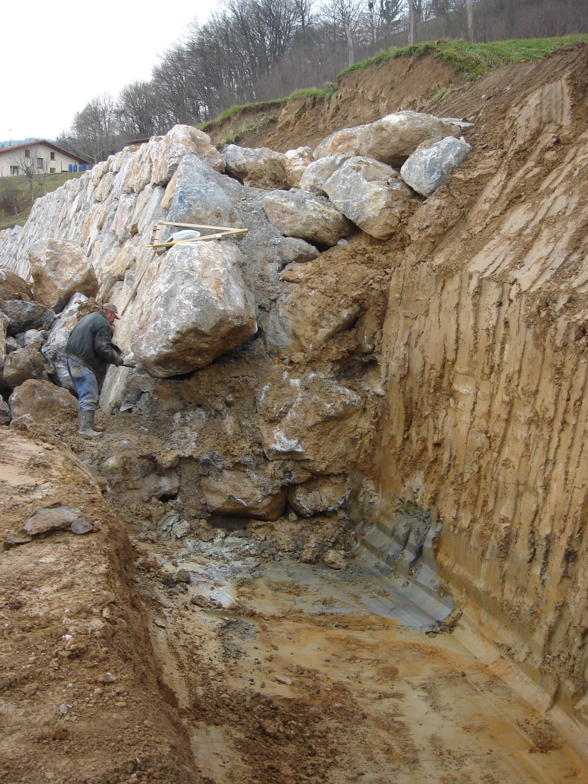 Retaining wall, gravity type, section